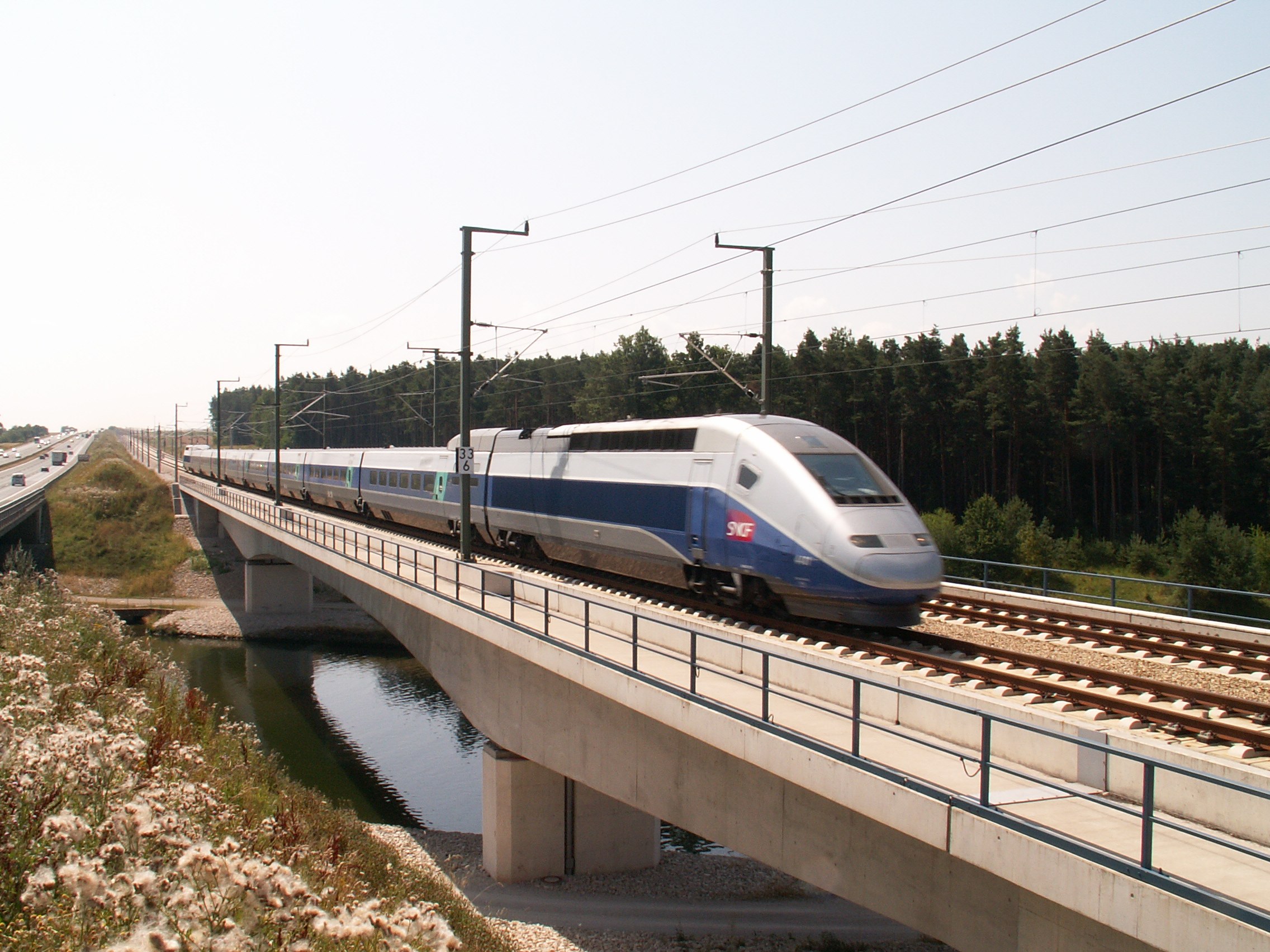 TGV POS on a 330 km/h test run on the Nuremberg-Ingolstadt high-speed track